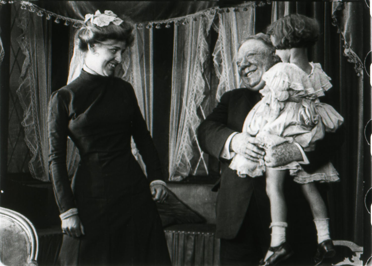 Her Crowning Glory is a 1911 comedy film directed by Laurence Trimble.